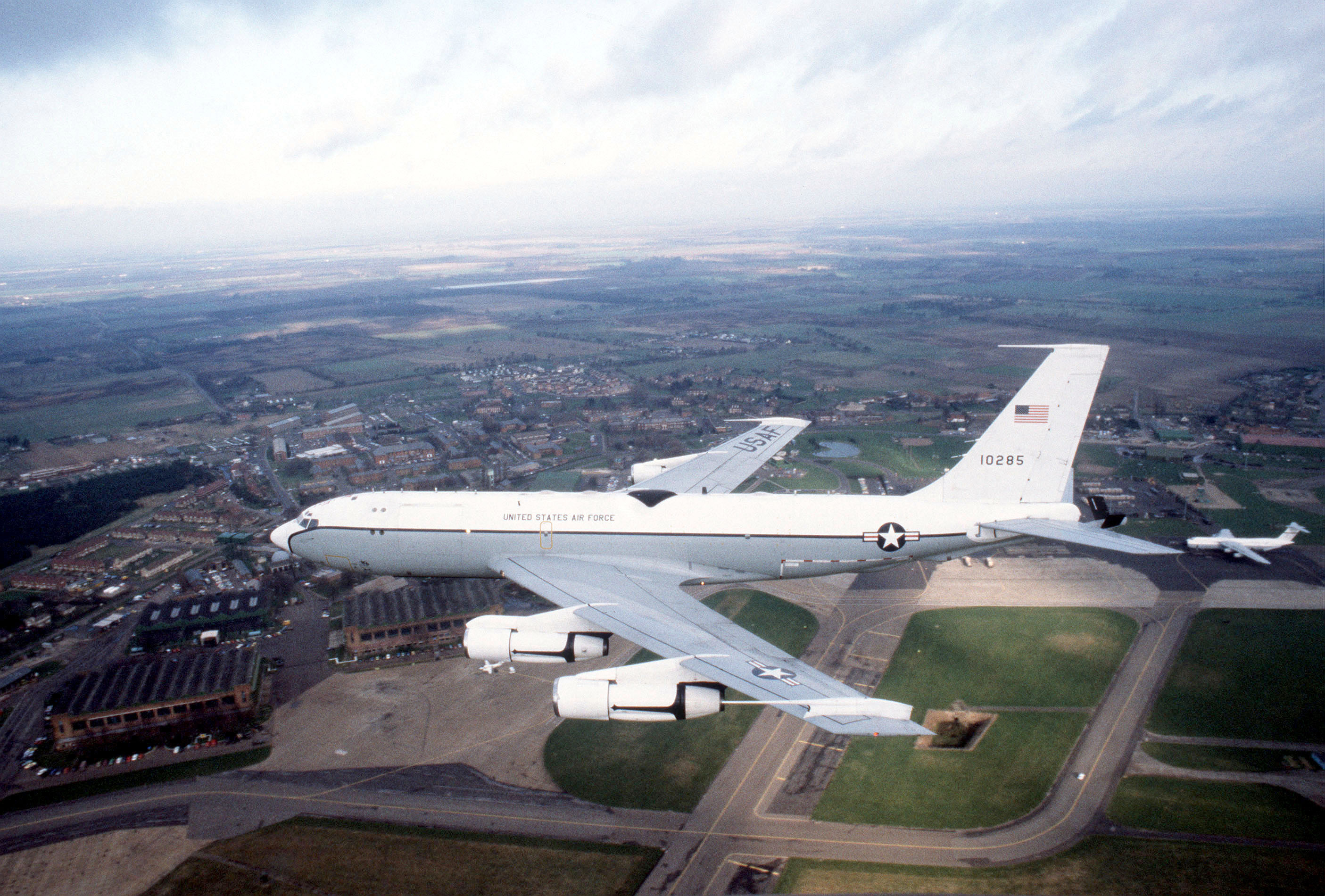 Boeing EC-135H (61-0285) Original caption: An air-to-air left side view of a EC-135 aircraft flown by the 10th Air Control Center Squadron, 3rd Air Force, RAF Mildenhall.